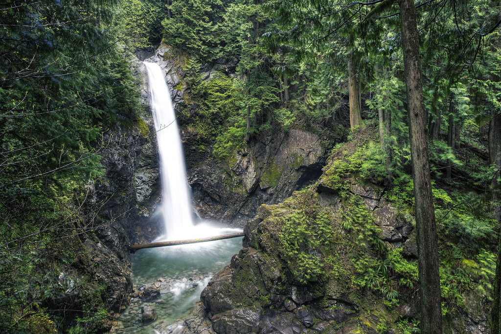 Waterfall and forest in Cascade Falls Regional Park, Fraser Valley, British Columbia